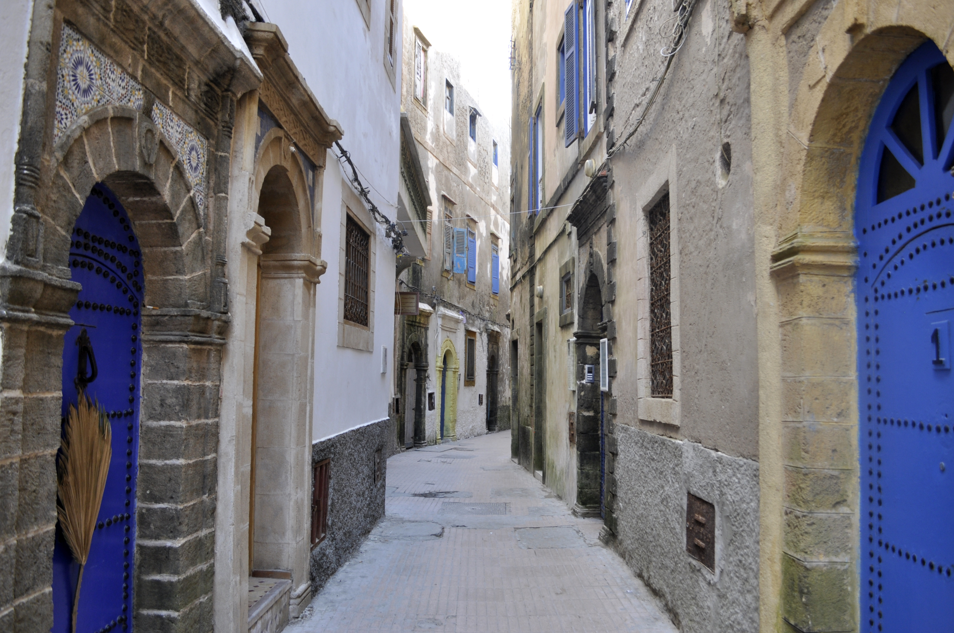 Doors in the Medina of Essaouira, Morocco.